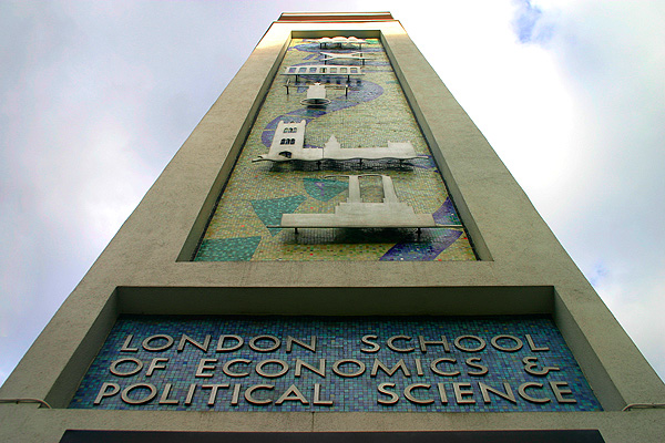 LSE: the St Clement's Building on the corner of Portugal Street and Clare Market.